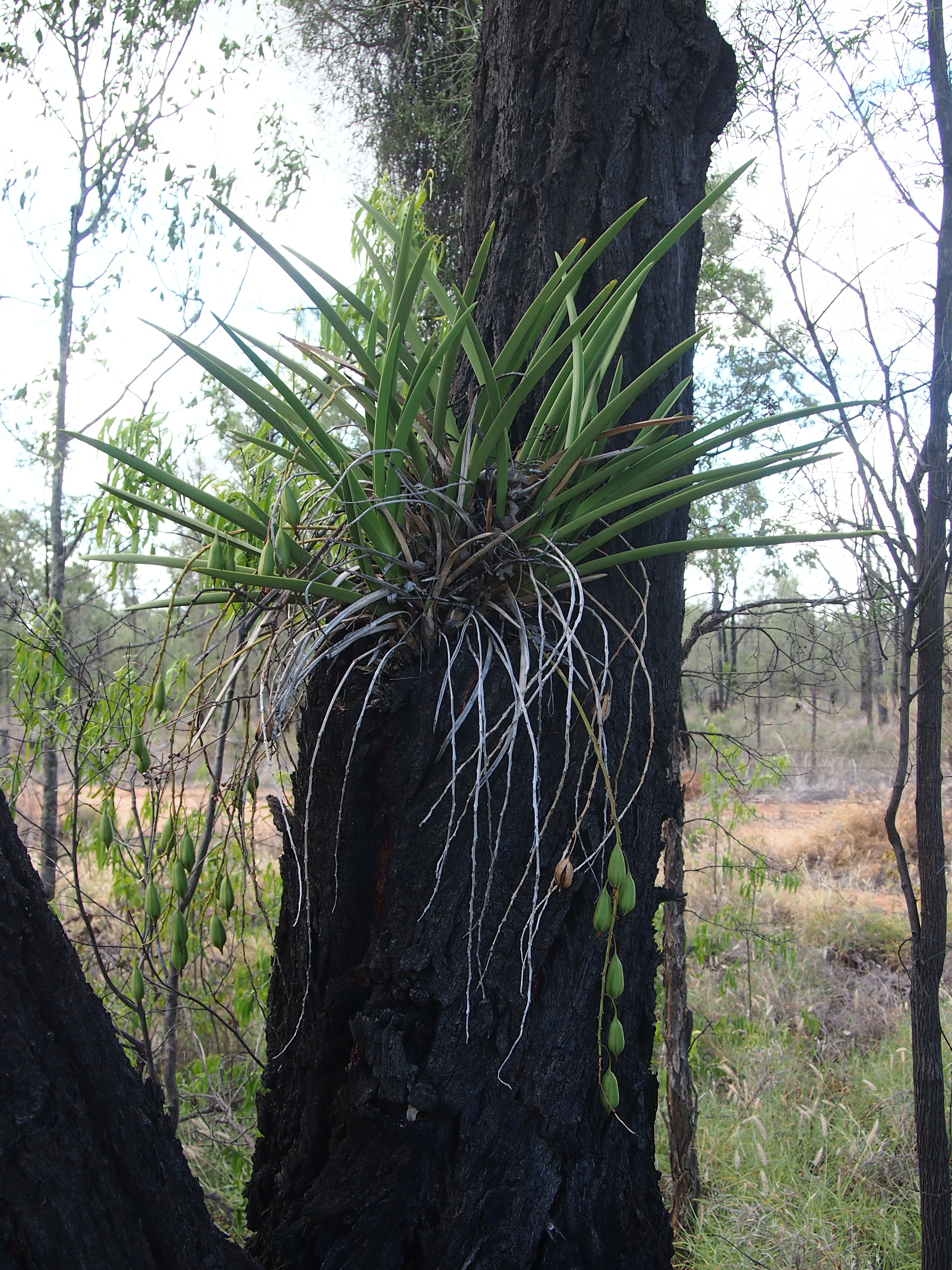 Cymbidium canaliculatum habit